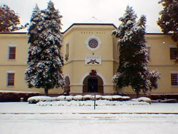 ASU Payne Hall with Snow (Original Headquarters Building for Augusta Arsenal, built 1827-29.)